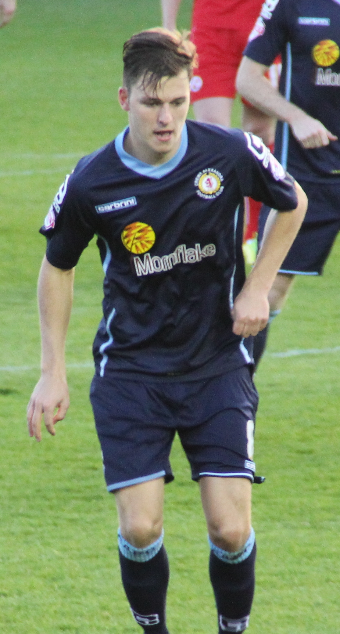 Chris Atkinson playing for Crewe Alexandra against Crawley Town at Broadfield Stadium, Crawley on 1 November 2014